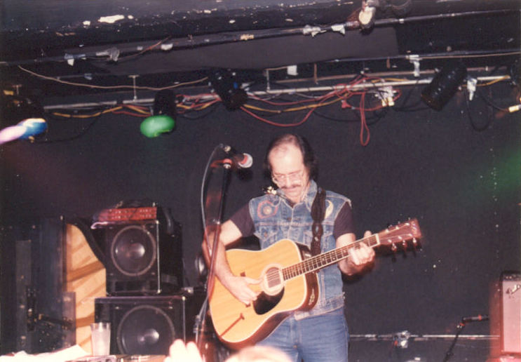 Robert Hunter, Grateful Dead lyricist